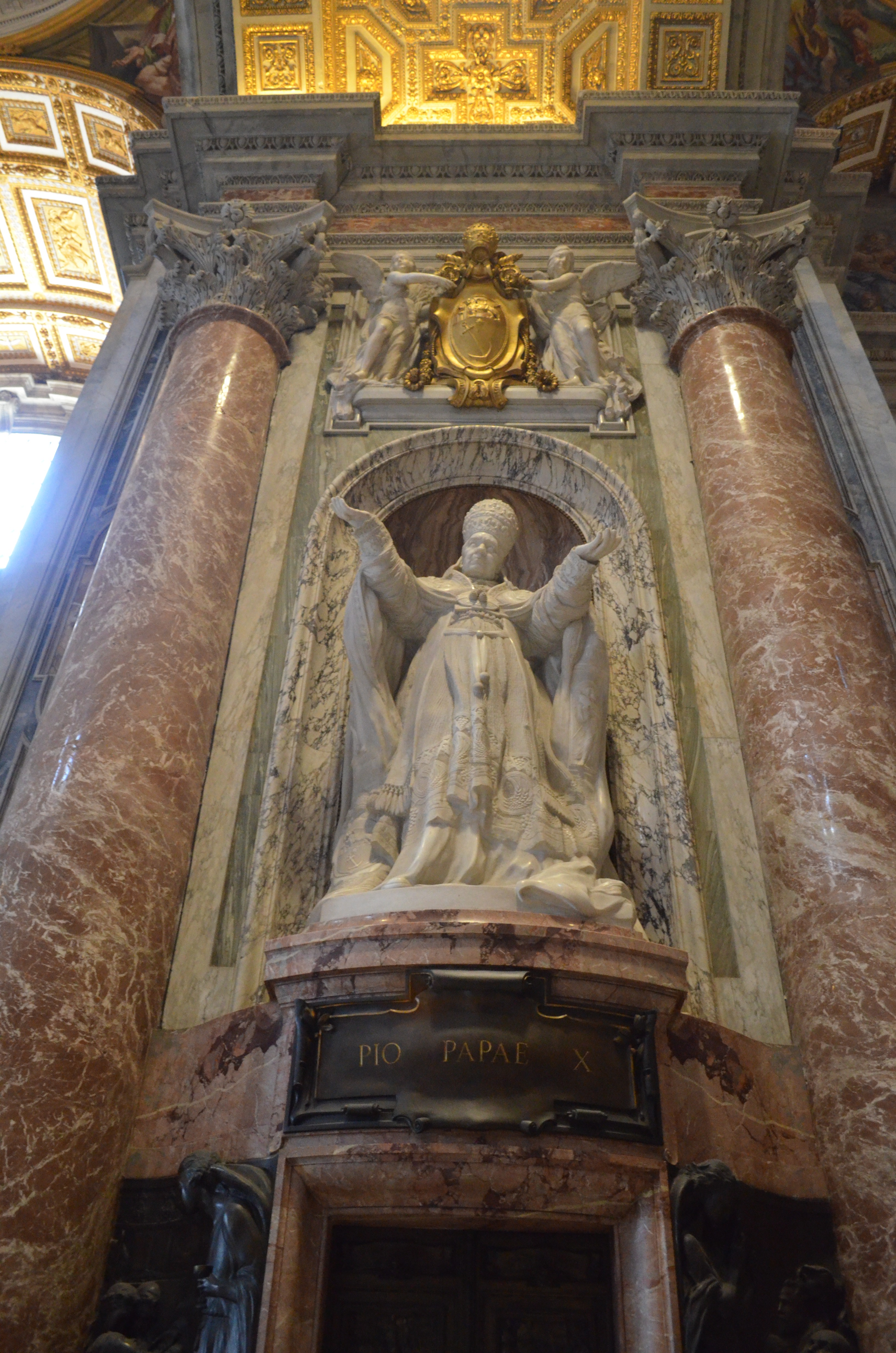 Saint Peter's Basilica